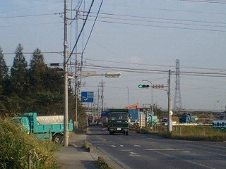 Dai crossing, located at Dai, Asaka city,Saitama,JAPAN.